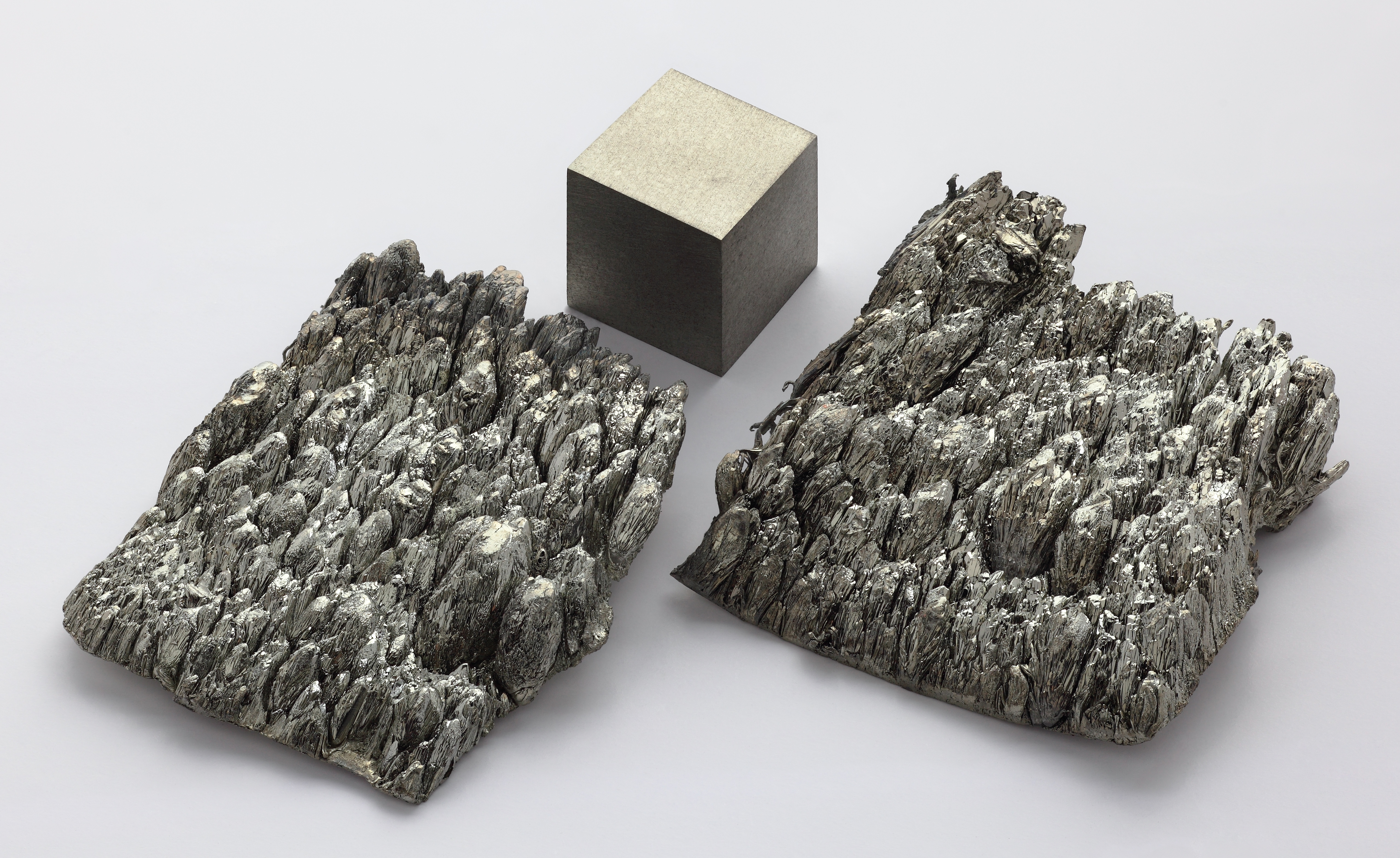 Scandium, sublimed-dendritic, high purity 99.998 % Sc/TREM. As well as an argon arc remelted 1 cm3 scandium cube for comparison.